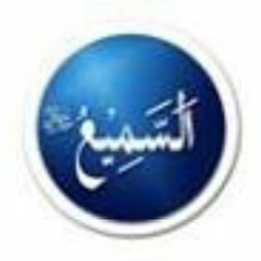 As-Samī' / The All Hearing is a name of Allah, is a name of God in Islam.